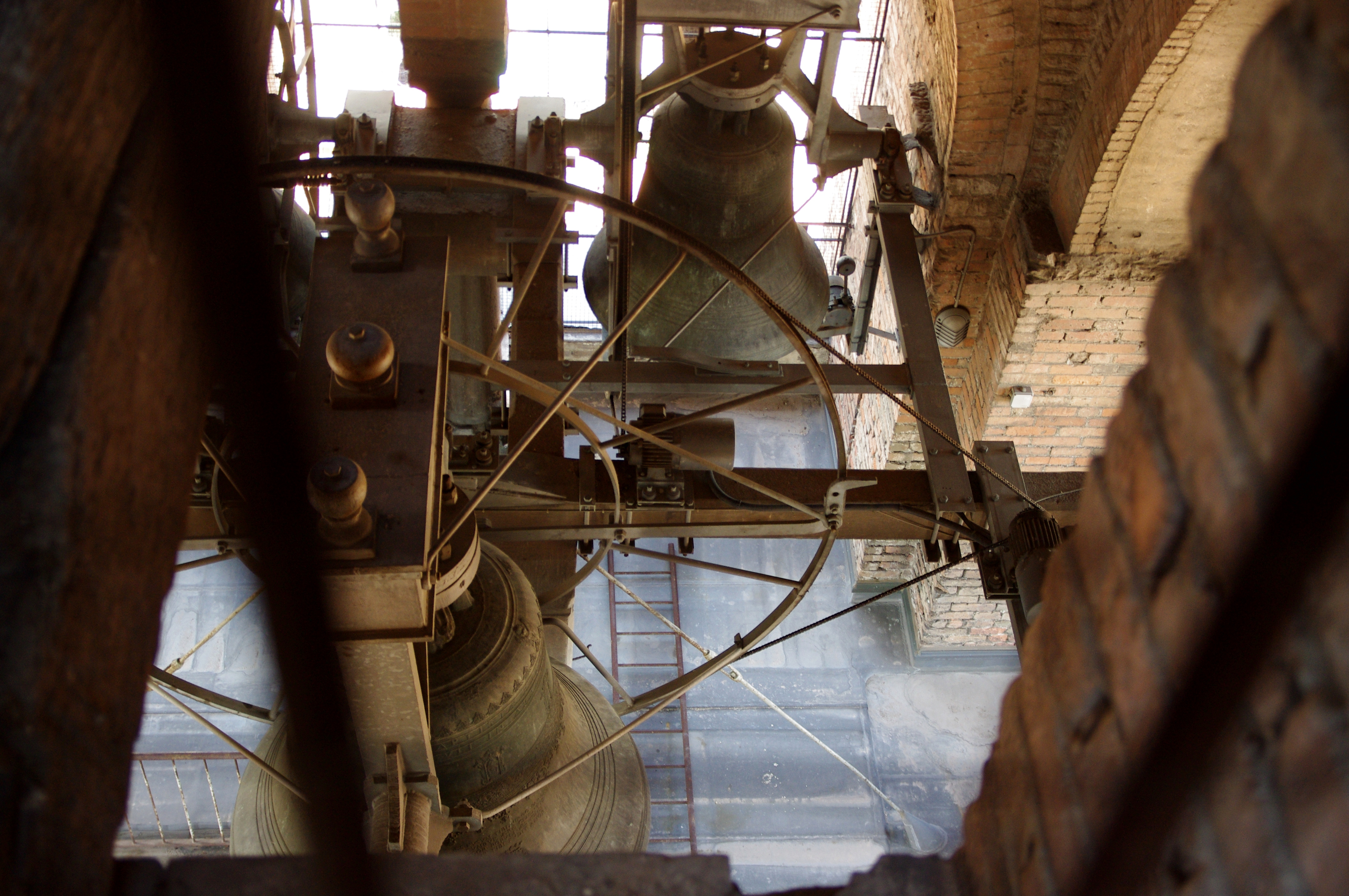 Bells, Torrazzo in Cremona